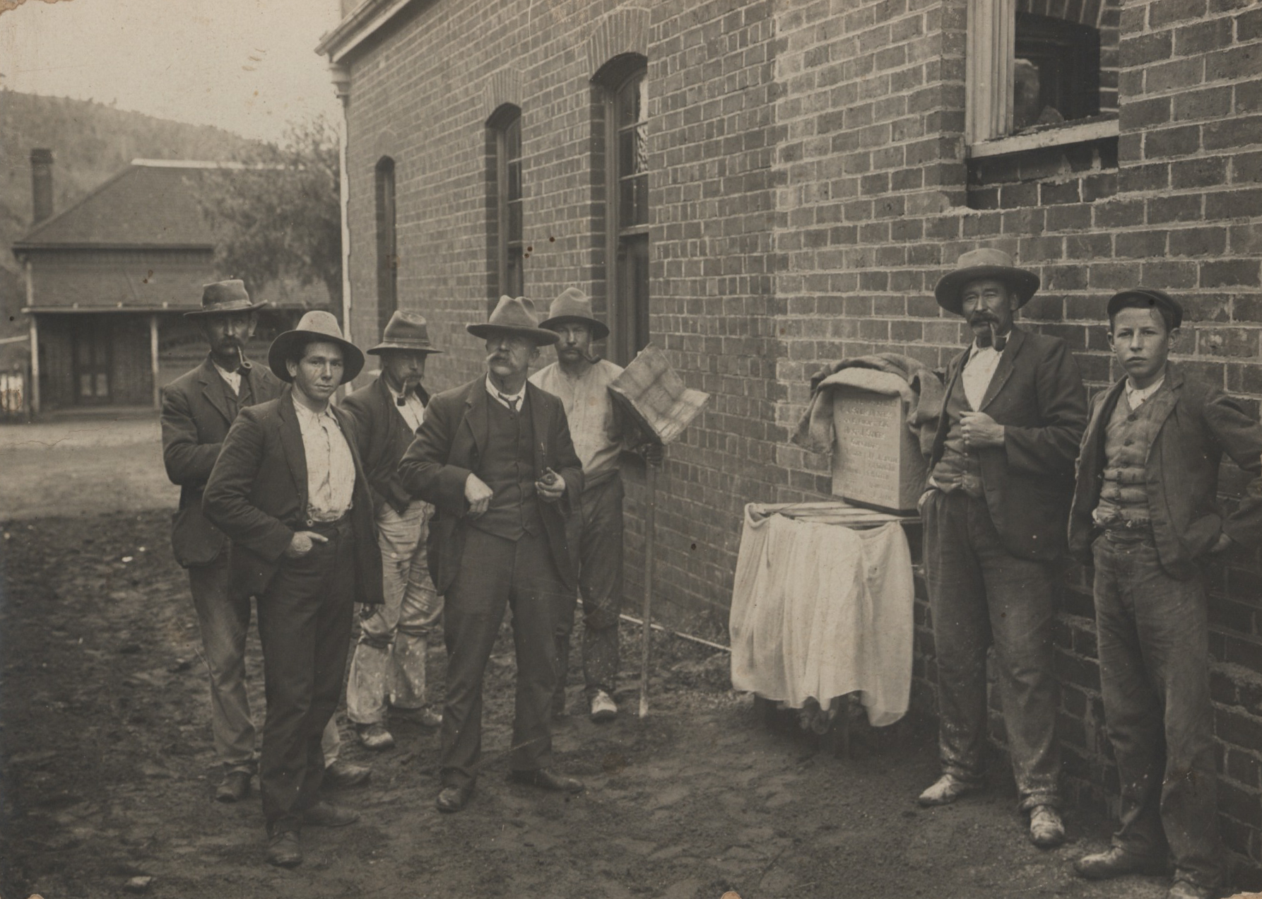 Cropped version of File:2001-992 Laying the foundation stone of the Toodyay Town Hall, Western Australia.tif.